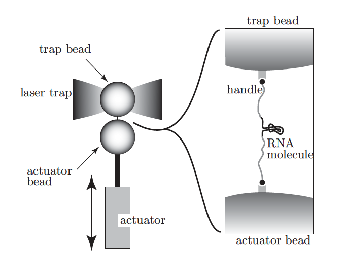 Generic structure of an optical tweezer. From Nelson Book